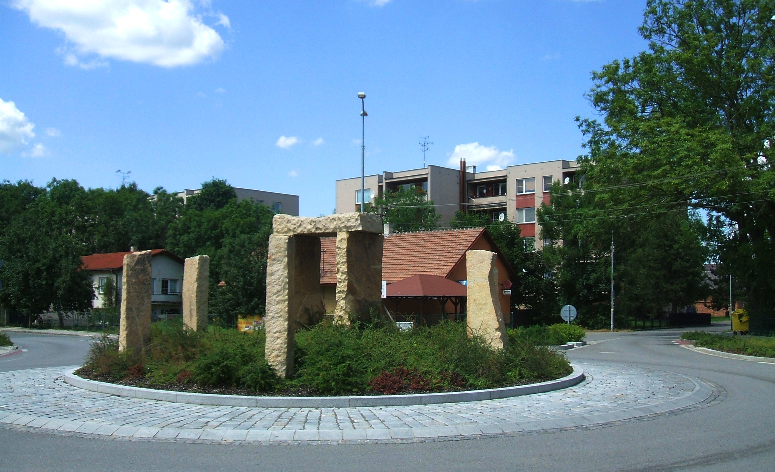 Ohrazenice, a part of Pardubice, Pardubice District, Czech Republic.